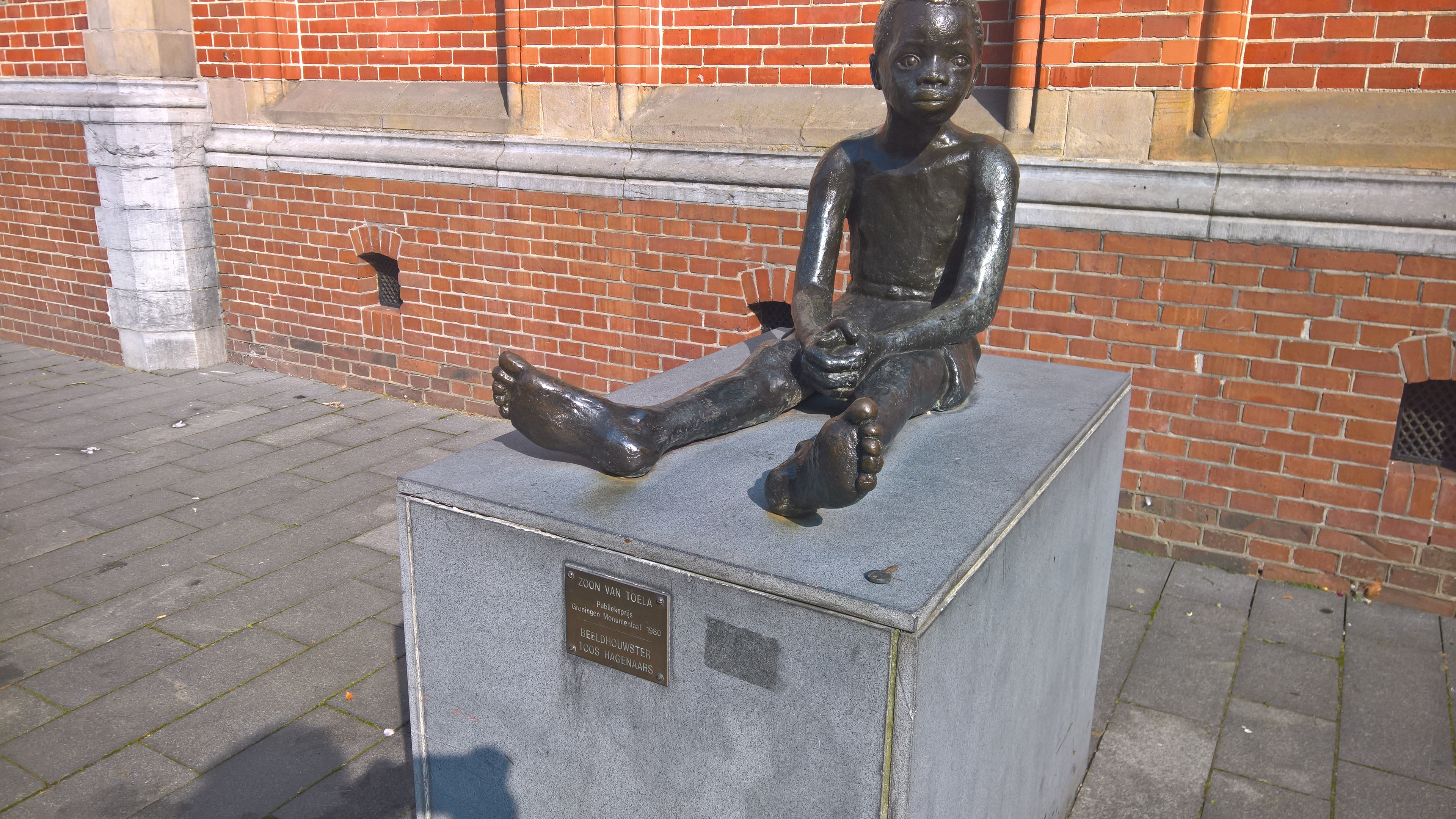 A statue of the alleged on of the Curaçaoleño anti-slavery rebel Tula.